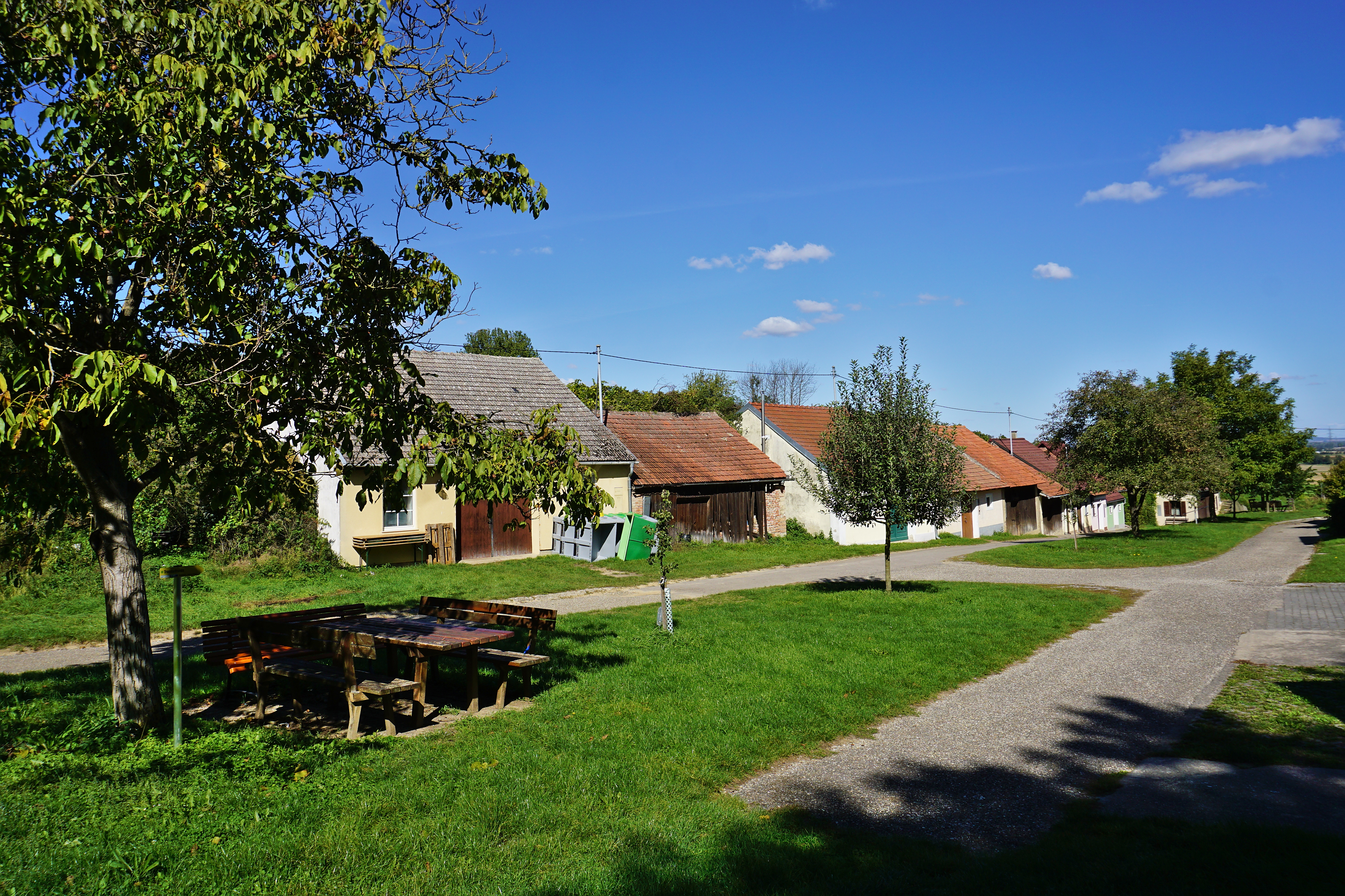 Kellergasse Steingraben (Trasdorf)